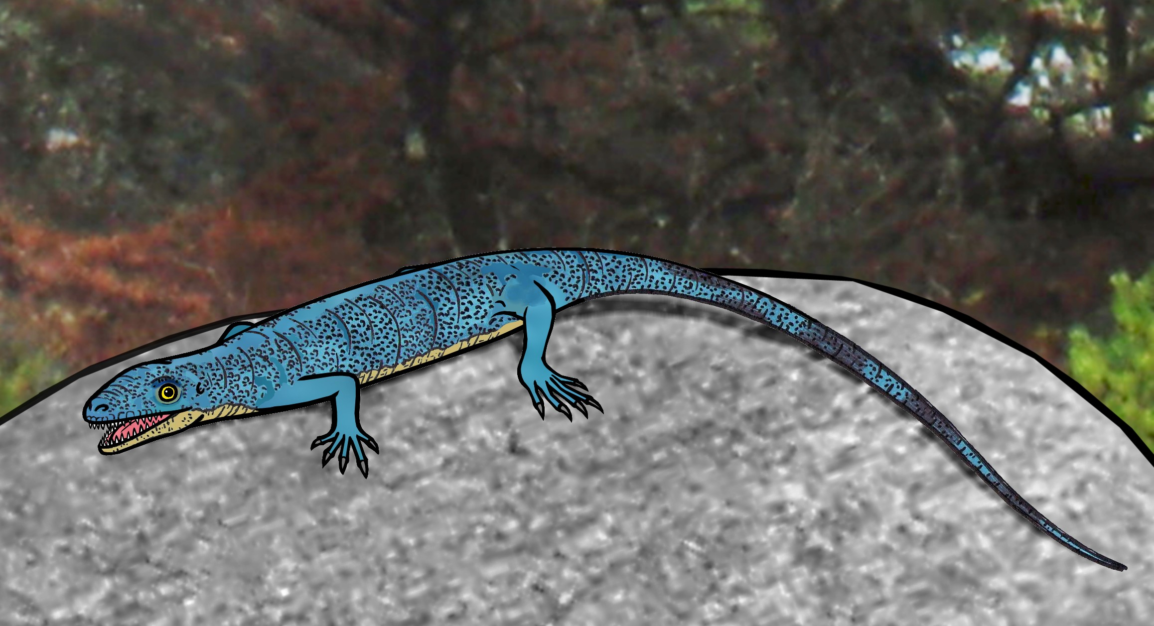 Reconstruction of the Anapsidan reptile Millerosaurus pricei (Watson, 1957), a member of the family Millerettidae. The shape of the body and head is based on illustrations found on p. 115 in the third edition of Michael J. Benton's book Vertebrate Paleontology (see HERE), and a skeletal reconstruction found HERE. Here, it's may restorated with the snout a little bit to short, but otherwise it's hopefully accurate enough.